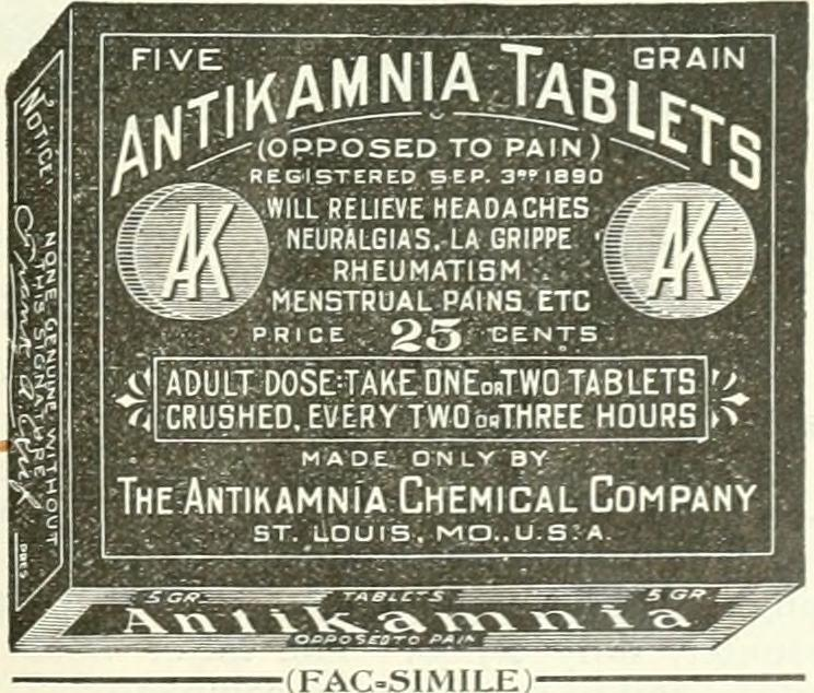 Title: The Canadian druggist Year: 1889 (1880s) Authors: Subjects: Drug trade Publisher: Toronto Text Appearing Before Image: - 3ou to correspond. SpurwayetCie., Cannes, Grasse hrance. Est. 1785.Floral W.aters, Pomades.Perfume Oils. Magnus & Lauer, New York.Geo. E. Pierce, Messina, Italy. Compagnie Morana, Zurich, Switzerland. Vital Deselos, Orne, France. E. Sachsse & Co., Leipzig,Germany. E.stahlished 18.59.German Oils and Chemicals. Bine, Fils et Cie., Paris. Fran.McKenzie Bros., Kobe. JapanSoclete des Huiles DOllve, Nice, France. M. Bauman Fils, I,iris, Fran SECURE OUR QUOTATIONS AND SAMPLES t I * N. C. POLSON & CO., Kingston, Ont. ; SPECIAL NOTICE (( Vest=Pocket=Box OF • ANTIKAMNIA TABLETS o n r~■n ■ es Cvpridol Capsules Eyeriiie Cypridol Hypo-Injection Formona Glycogen Capsules Glycogen Hypo-InjectionGrasshopper Lint Hy-Jen Tooth Paste Herpicide Melanyl Marking Ink Pikes Centennial Salve Herpicide Combs Natures Remedy, 50c. and $1.00 Pluto Water Herpicide Soap Ovoferrin Razoo Lymans Violet Anunonia Pancreo Bismuth Freyes Rendells Wifes Friend Sal Lithiu Terraline St. Domingo Bay Rum Tefits Green Oil 50c. HEADaUAETERS FOB SAVE THE HORSE (A Spavin Cure) SAVE THE HORSE OINTHENT (Large and SmalU. Acetone Hematin Metakalin (Bayers) ^CQJjj Hematein Platinic Chloride 5% solution Antikanniia (Vest Pocket Size) Jothion (Bayers) Soda Flu